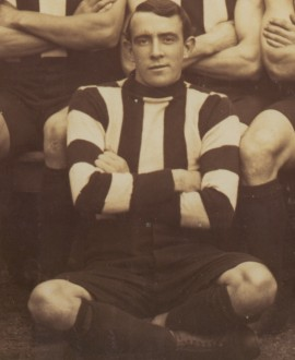 Photograph of Les Huntington in 1914